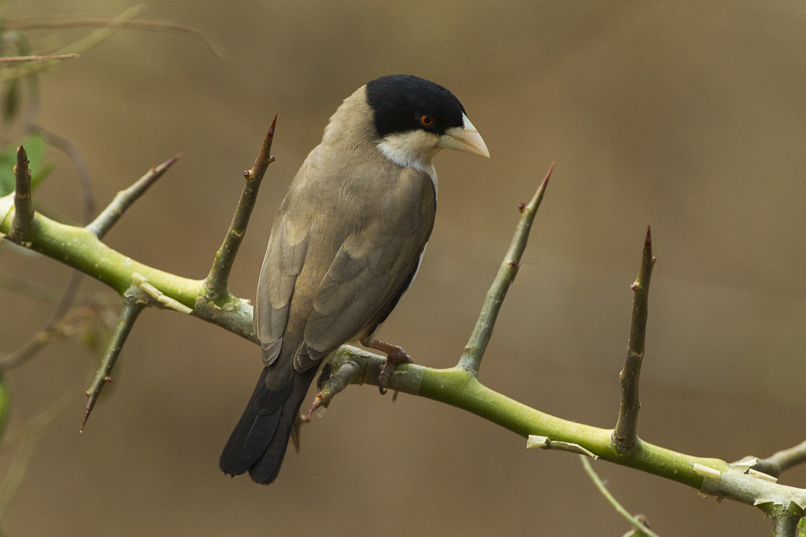 Black-capped Social-Weaver - Samburu - Kenya_S4E5139